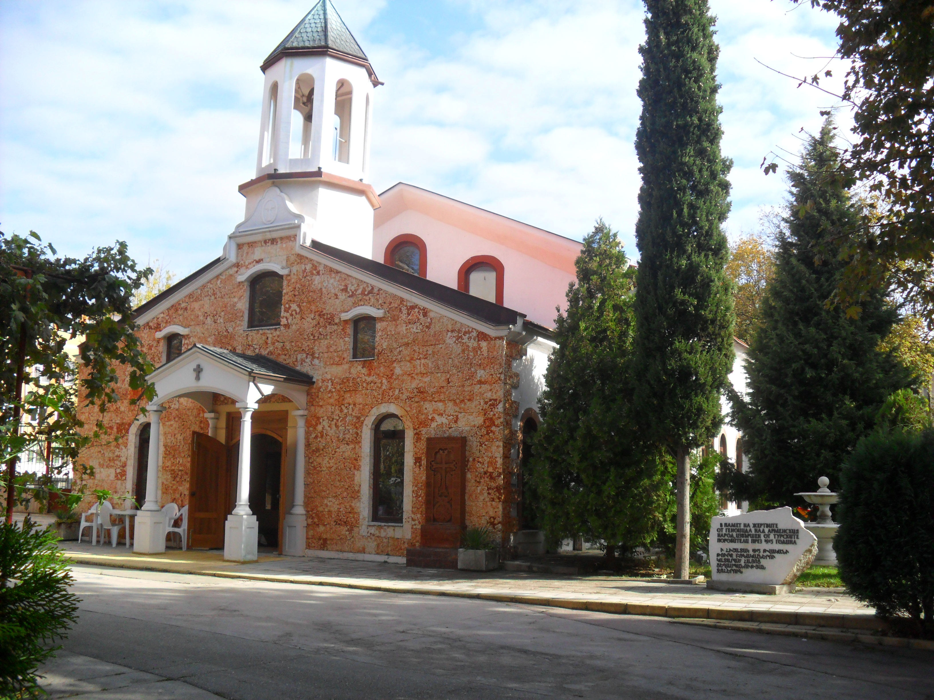 Armenian Orthodox Church "St. Sarkis"